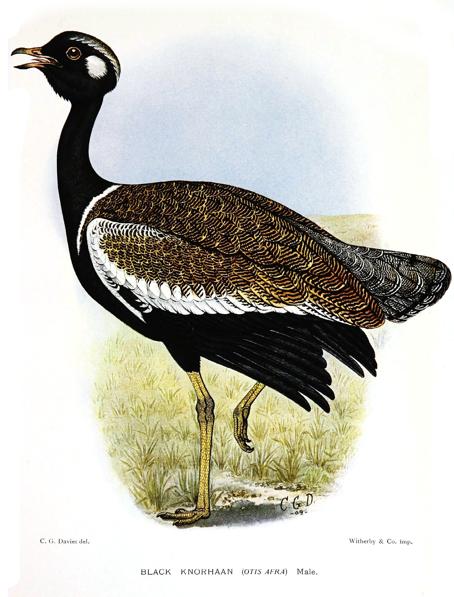 Afrotis afra